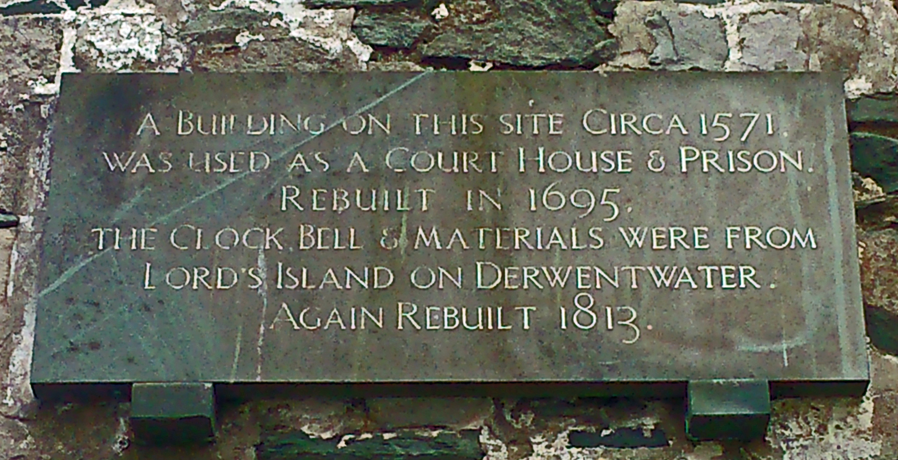 plaque on the moot hall of Keswick, Cumbria, giving key dates in the history of the building